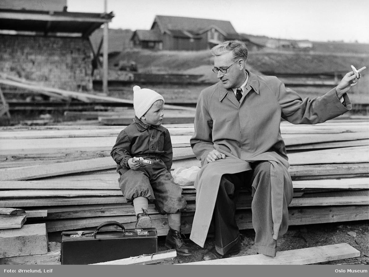 Minister Erik Brofoss with his son Karl Erik have a lunch break at Grorud railway station, Oslo, Norway. (The boy was 3 years old when the picture was taken). He joined the Norwegian government-in-exile in 1942 and became Minister of Finance in Einar Gerhard's first Ap government in 1945. Brofoss was associated with the new generation of economists who wanted increased use of plan economic instruments and introducing national accounts to avoid the recurrence of the economic crisis of the interwar period. In 1947 he took over the Ministry of Commerce and Shipping, a ministry he himself proposed.